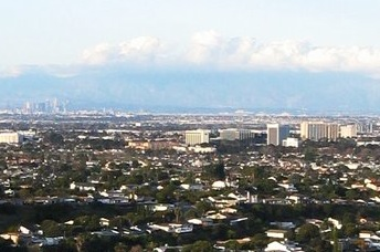 Torrance crop from large panorama